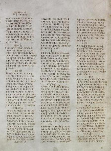 first page of Book of Lamentations on Codex sinaiticus (330-350 CE) ( Lamentations, 1:1 - 1:11 library: LUL folio: xlii v scribe: B1)